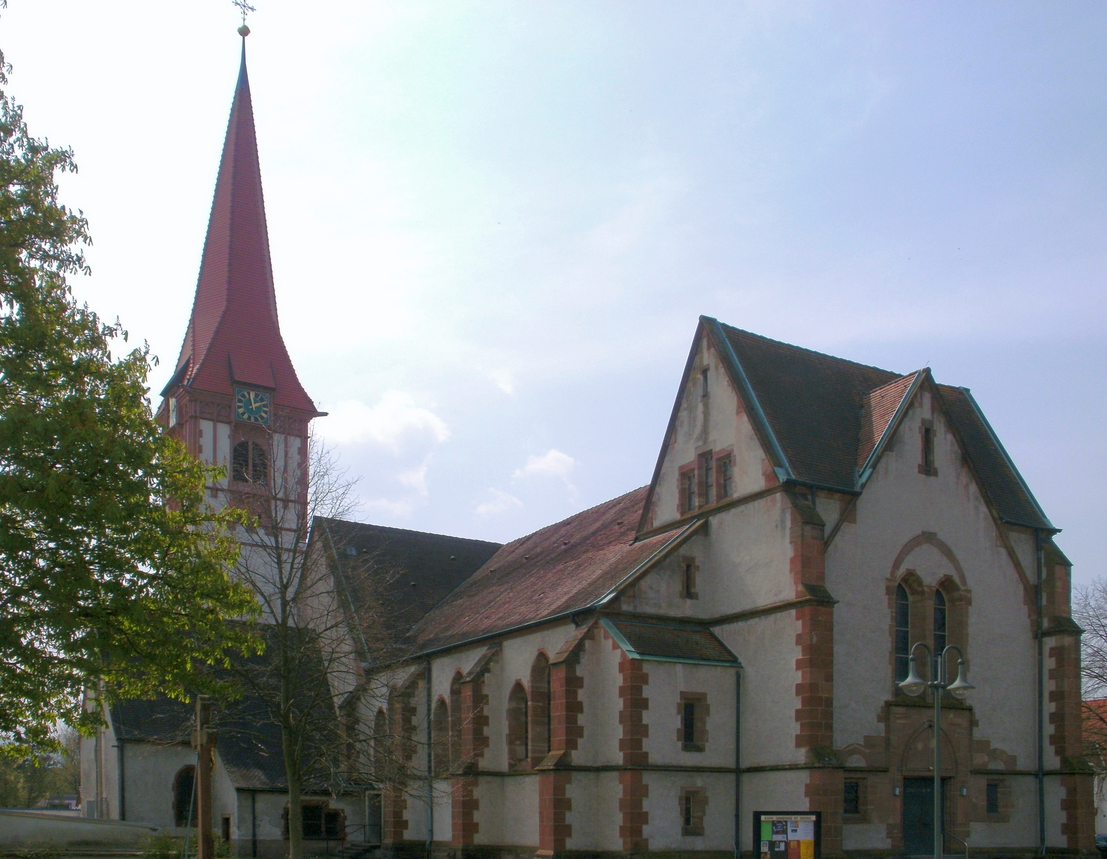 Saint George Church in Grenzach-Wyhlen, Germany.